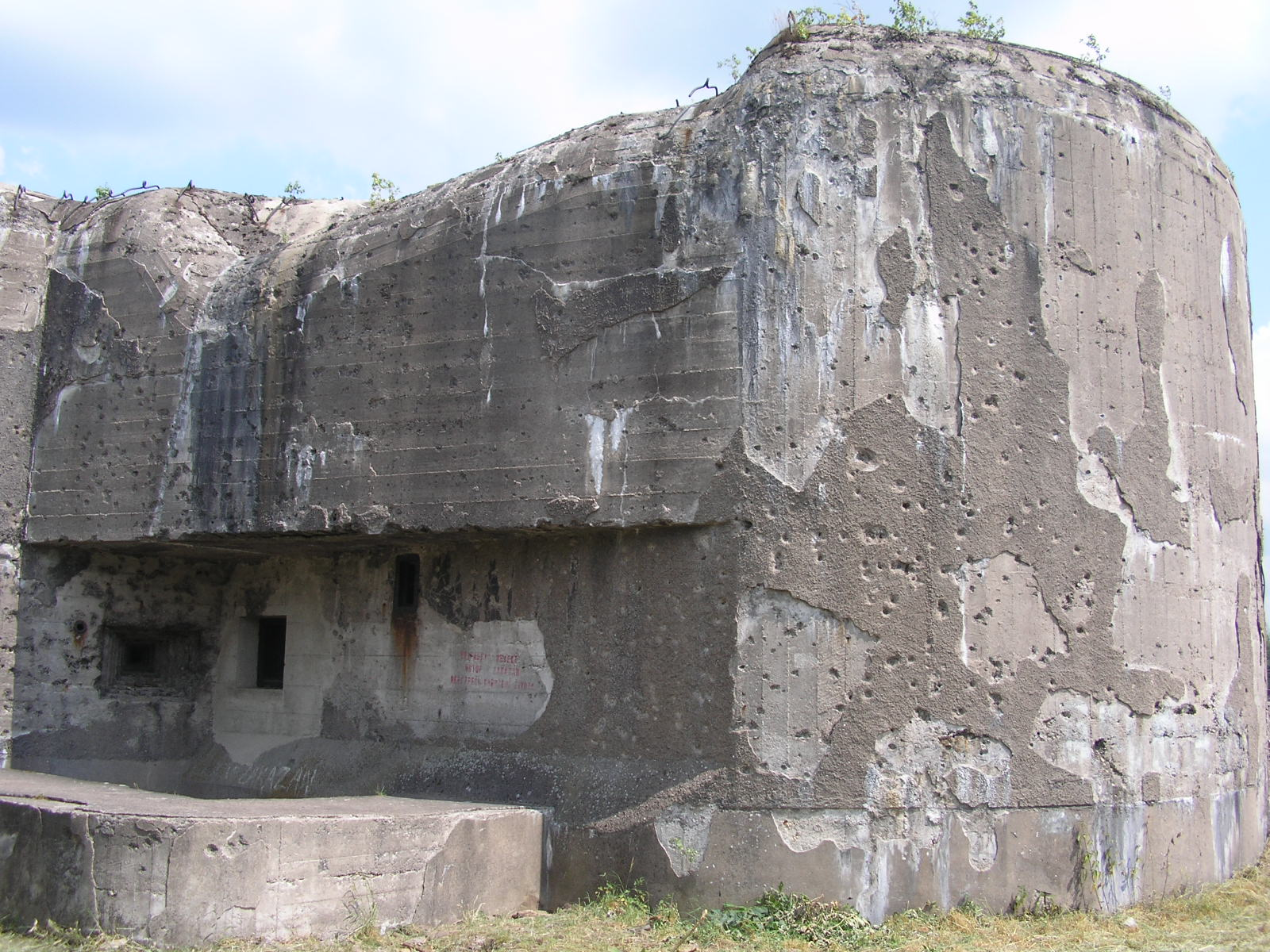 Building N-S 73 fortress Dobrošov.